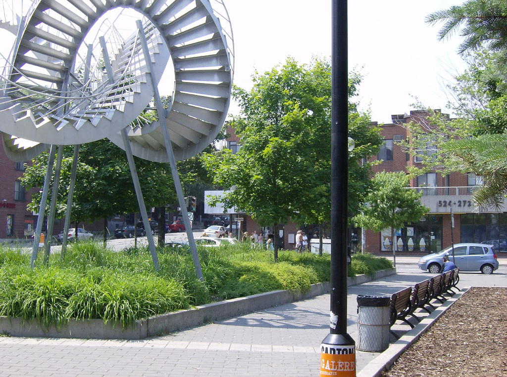 Sculpture/folly Revolutions (2003) by Michel de Broin in Montreal/Canada